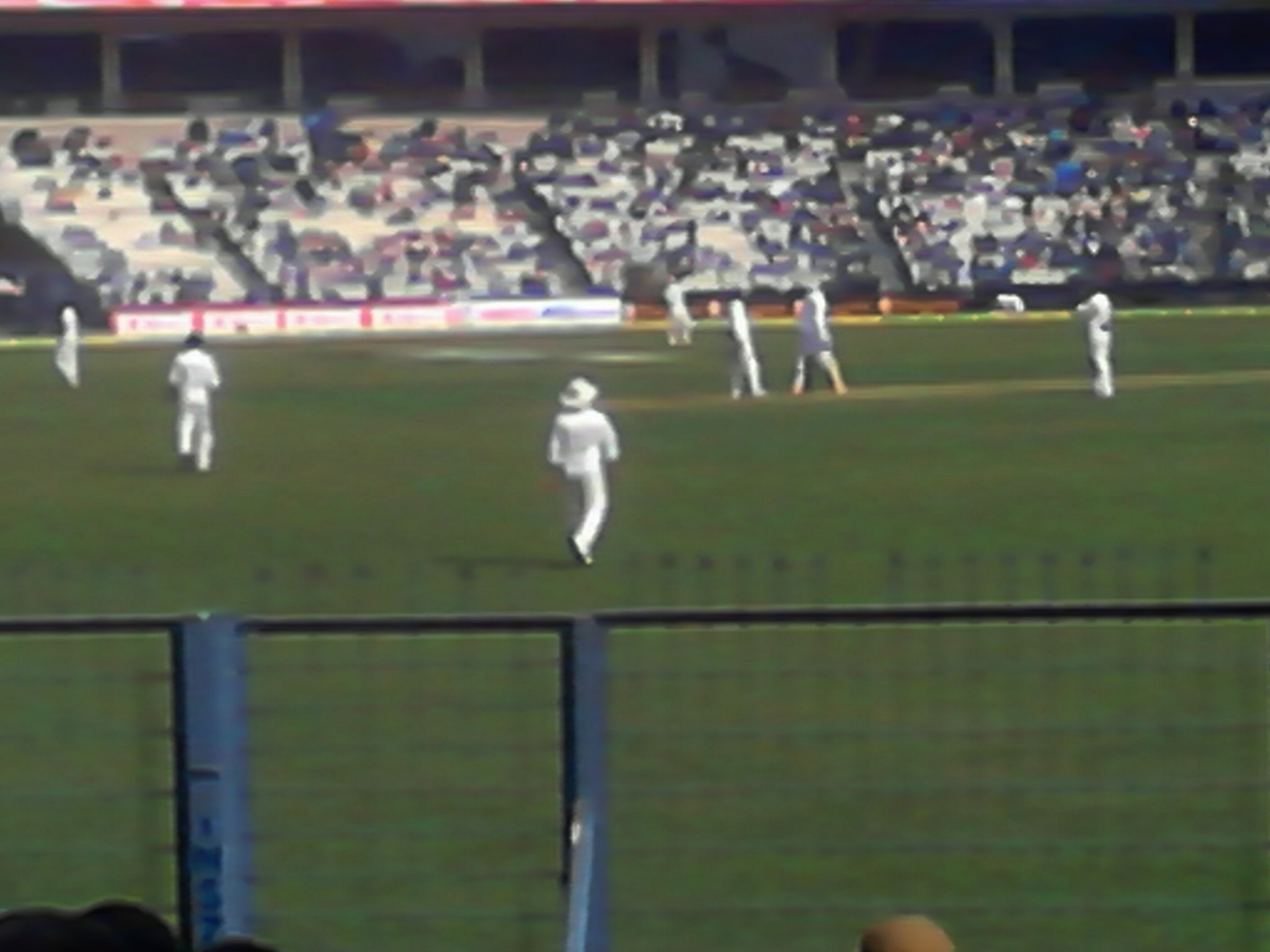 Sachin fielding at 199th TEST match in Eden Gardens